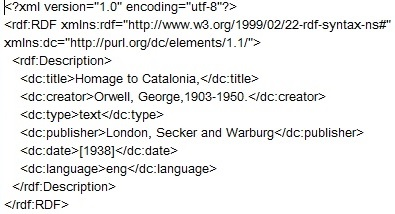 Example of Dublin Core